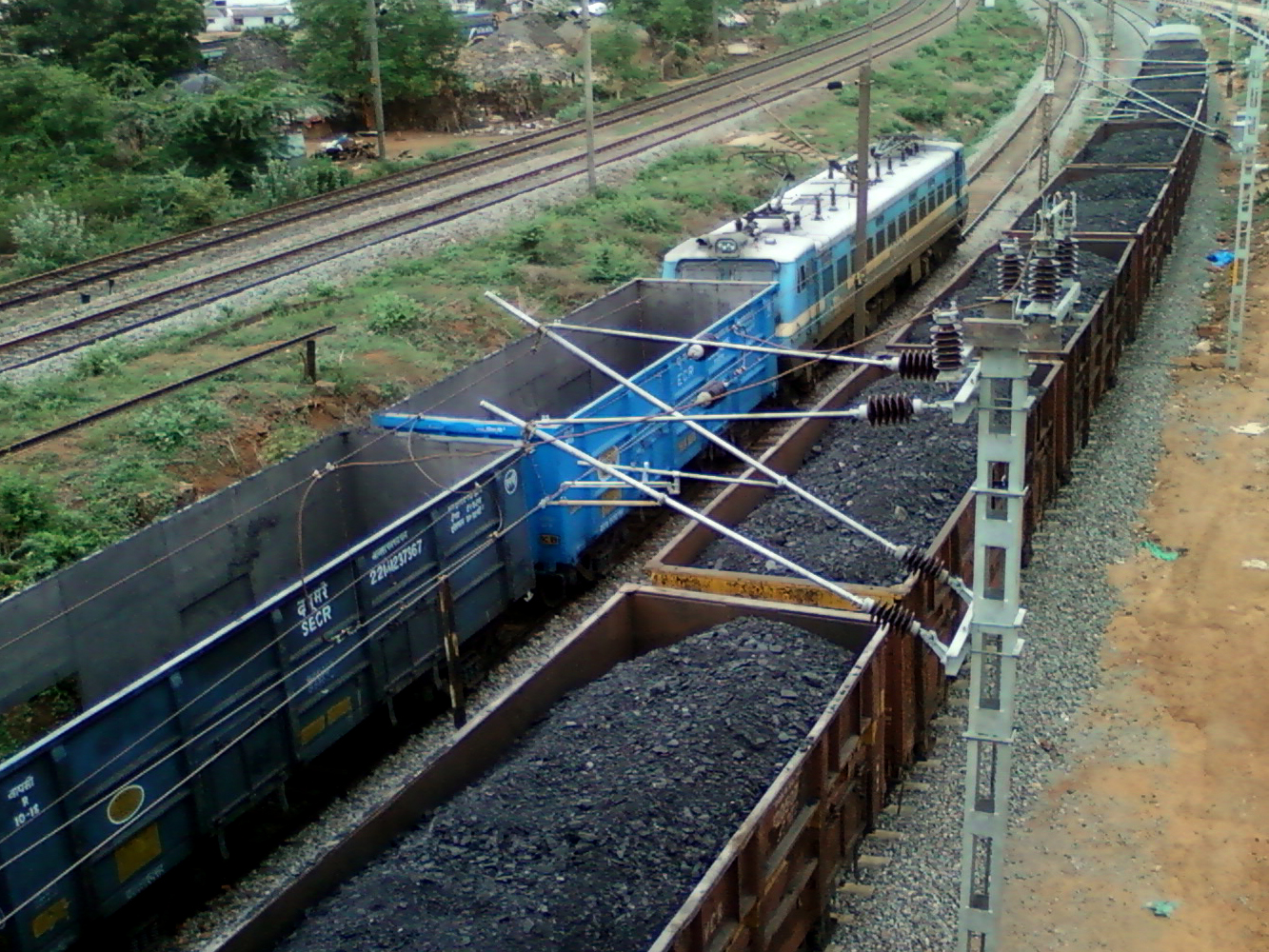 28126 WAG-7 loco of Ludhiana (LDH) with empty freight rakes and coal wagons on the other line at Simhachalam